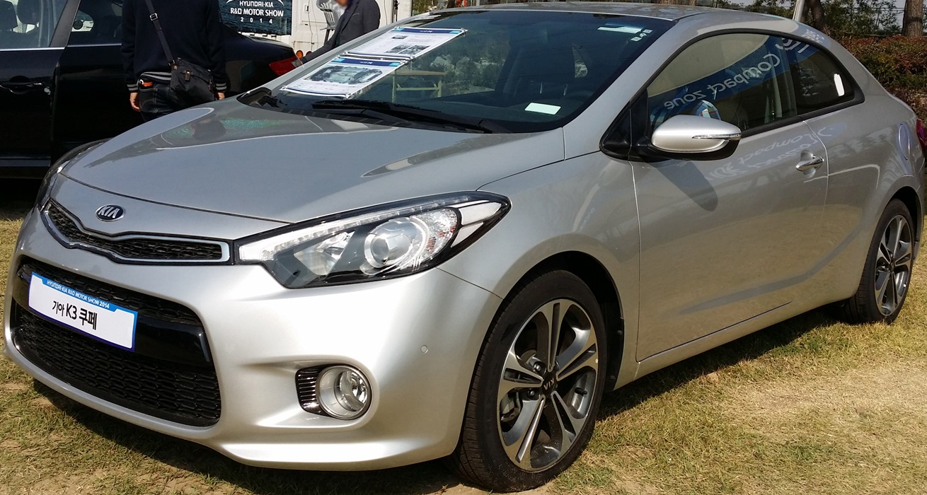 Kia K3 Koup